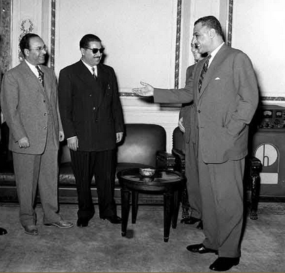 Egyptian President Gamal Abdel Nasser meeting Jordanian delegates. Foreign Minister Abdullah Rimawi of Jordan is first from left